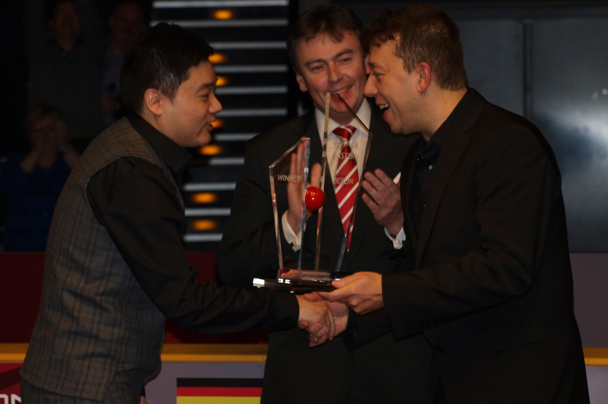 2nd session (final) presenting the trophy